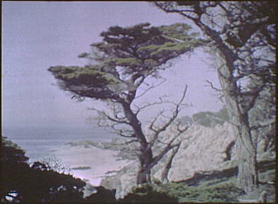 Early color work of Arnold Genthe, renowned photographer, while a member of the Bohemian Colony of Carmel-by-the-Sea, California, in the early 1900's.